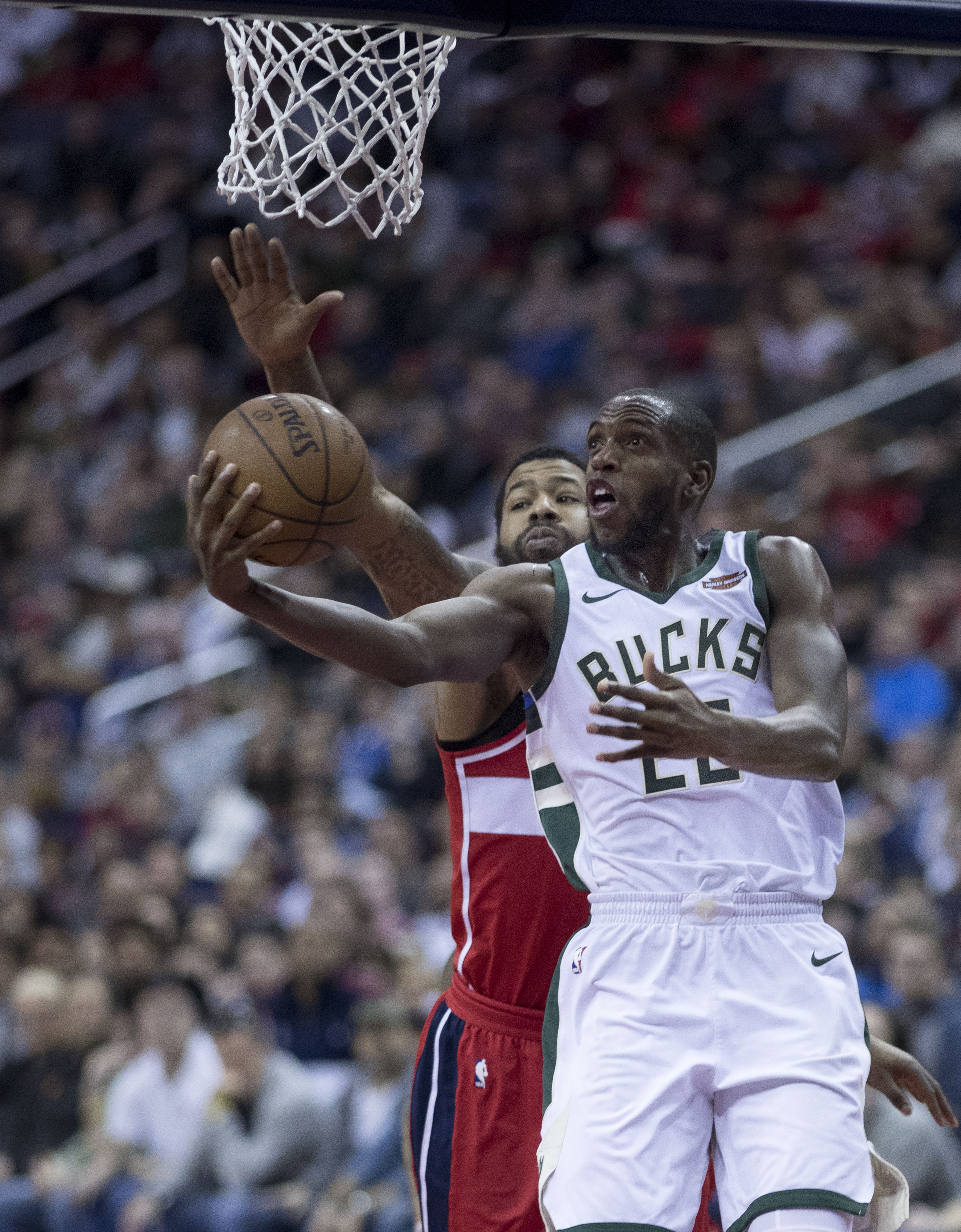 Bucks at Wizards 1/15/18